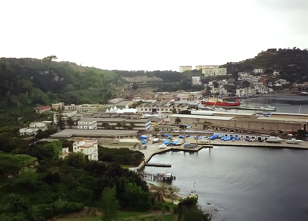 Baia, the former roman Baiae is located between Pozzuoli and Bacoli in Campagna in Italy. On the slope the excavations can be seen.